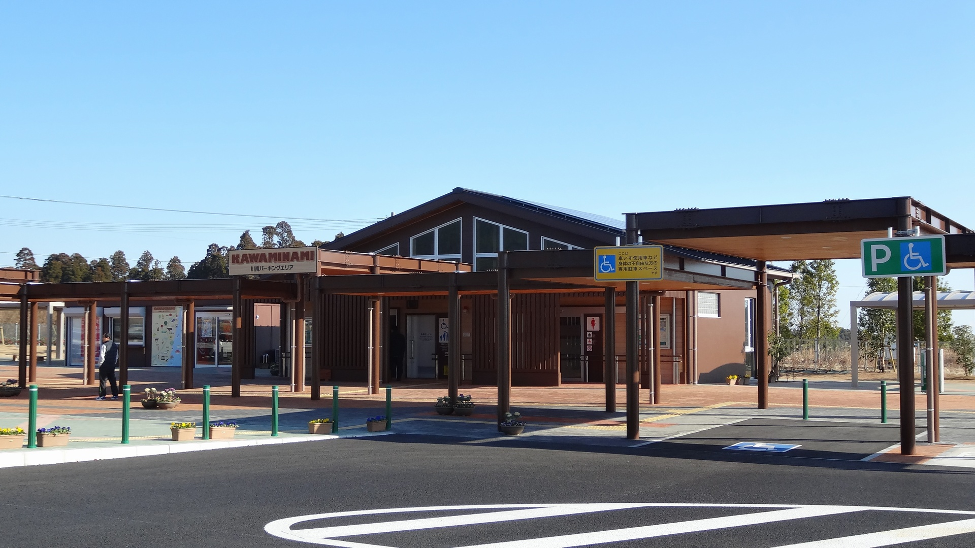 Kawaminami Rest Area (Higashi-Kyushu Expressway - Kawaminami Town, Kumamoto, Japan)